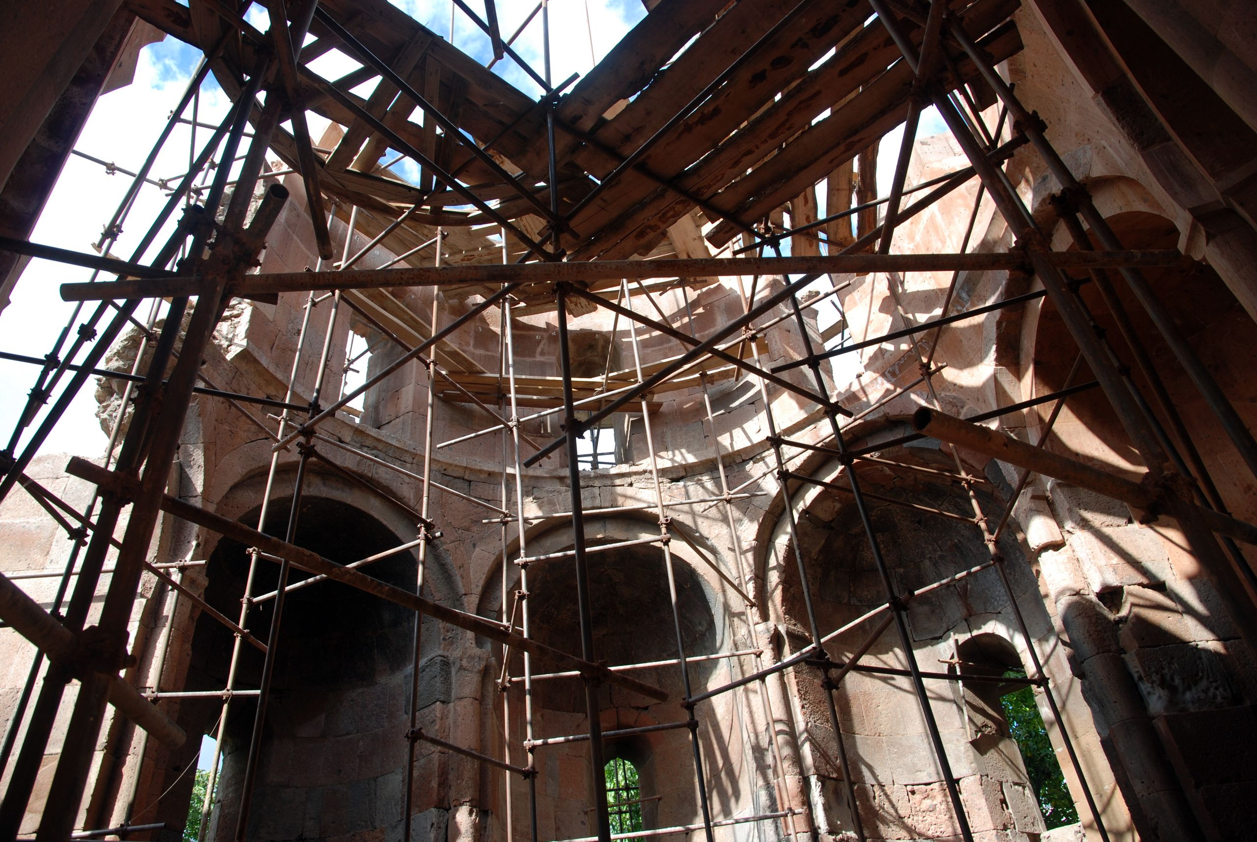 Irind, church